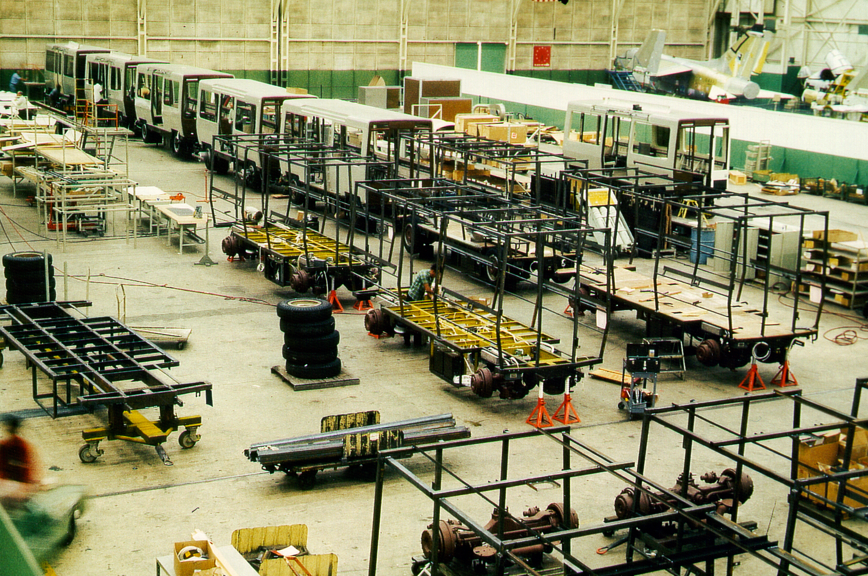 Airtrans Vehicle Assembly